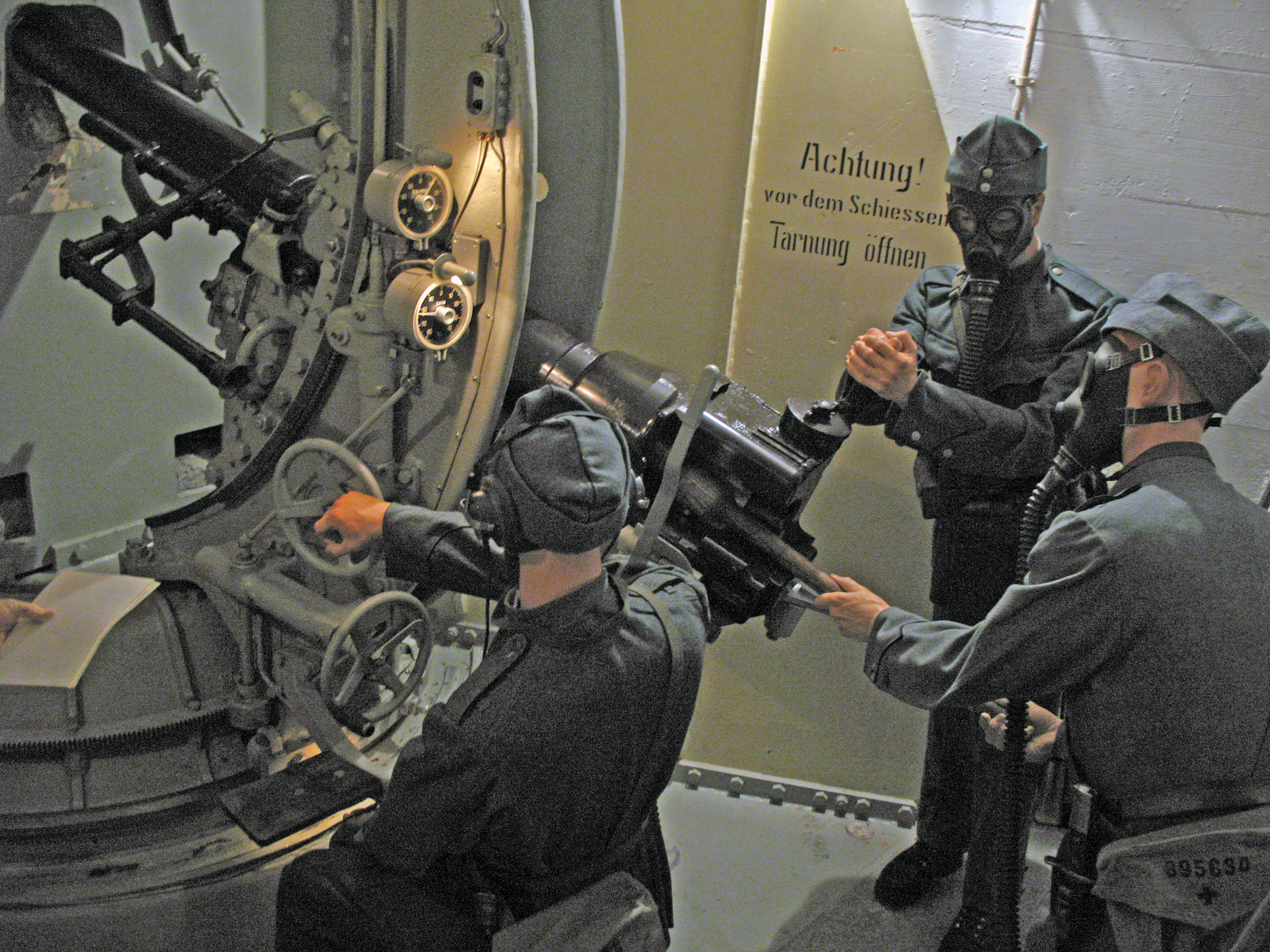 Artillery post #1 with munitions niche, Fort Fürigen, Switzerland